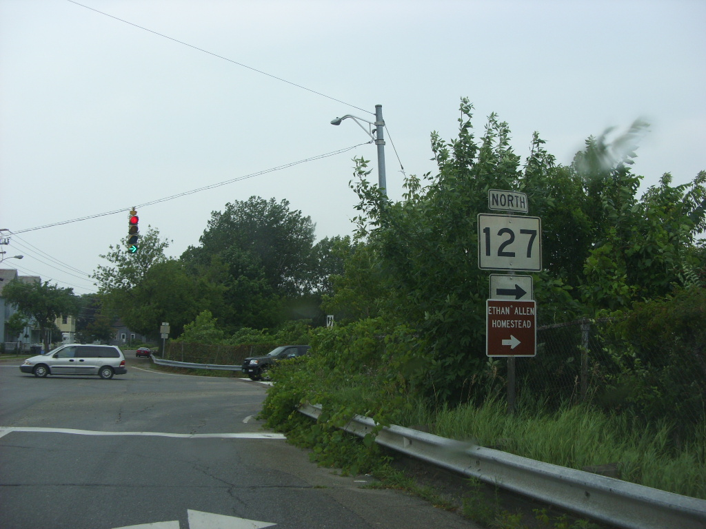 Vermont State Route 127 northbound near the Ethan Allen Homestead in Burlington, Vermont. Signage comes ahead for the Homestead.